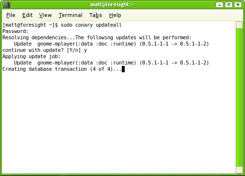 Conary